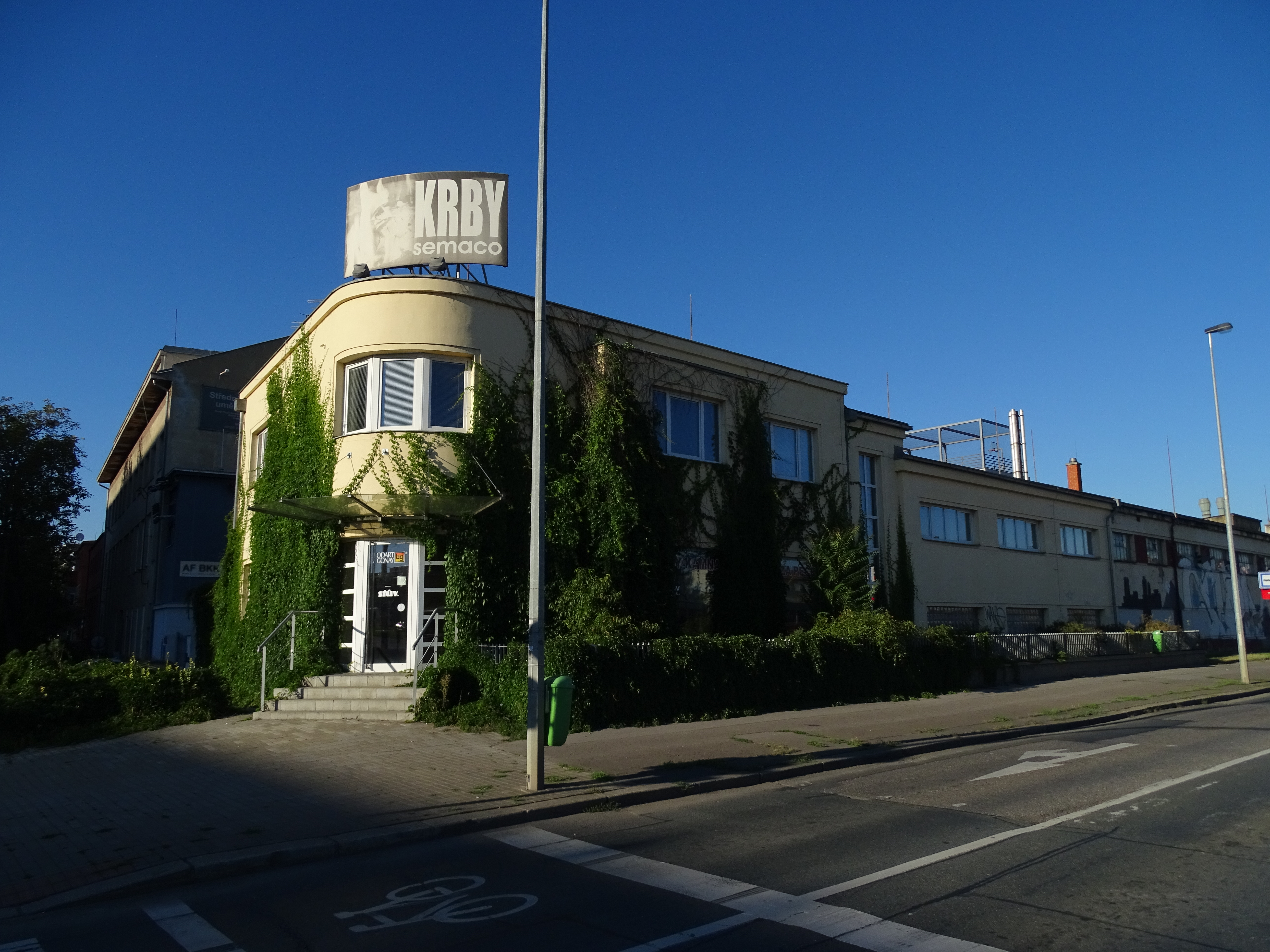 Prague-Vysočany, Czech Republic. Poděbradská 896/11.